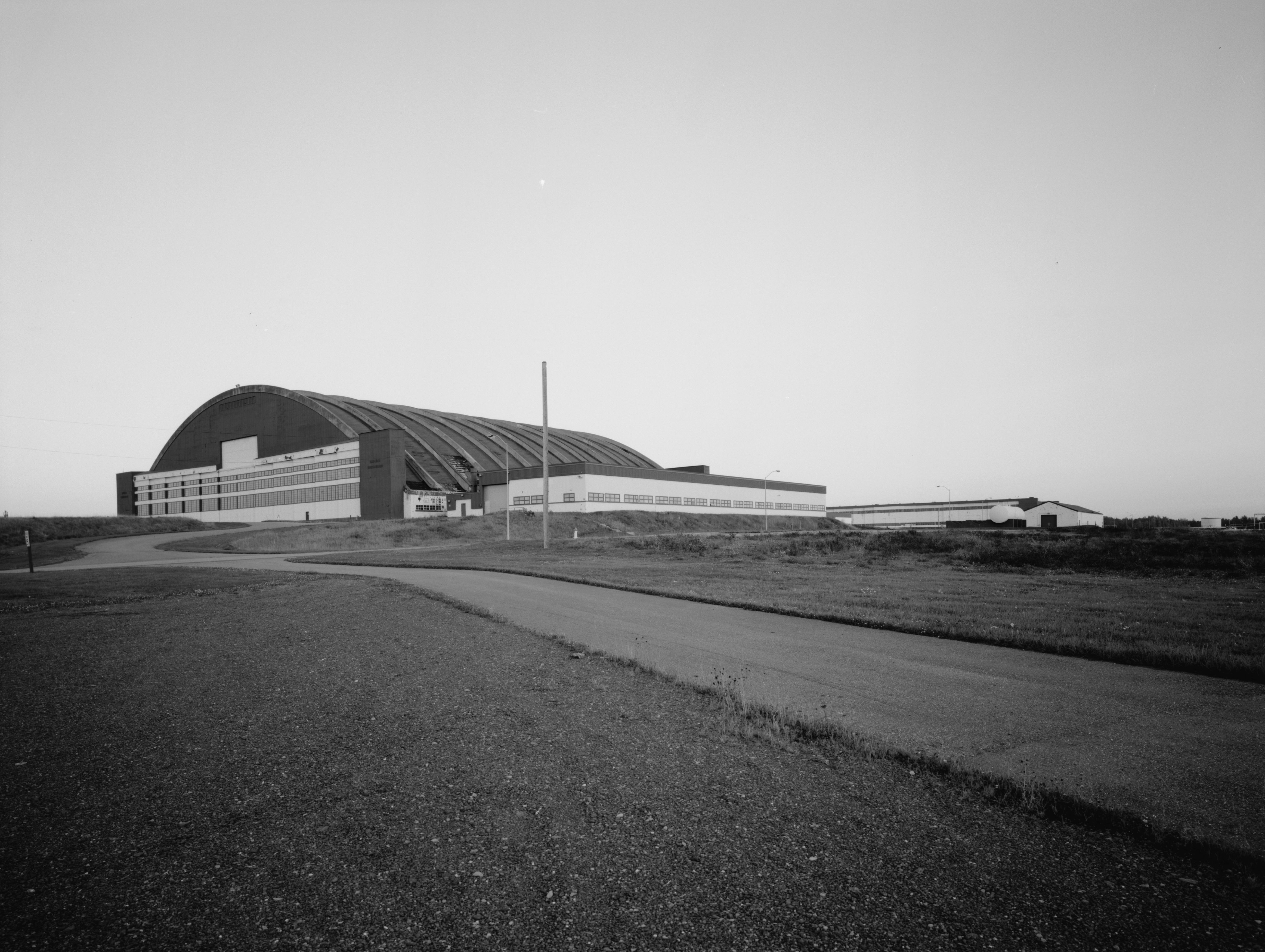 Loring Air Force Base, Maine Loring Air Force Base, Arch Hangar, East of Arizona Road near southern end of runway, Limestone vicinity, Aroostook County, ME. Context showing northwest corner of Building 8250 (Arch Hangar), with Building S251 (Aircraft Maintenance and Repair Shops Building addition) in foreground. HAER ME,2-LIME.V,1B-2